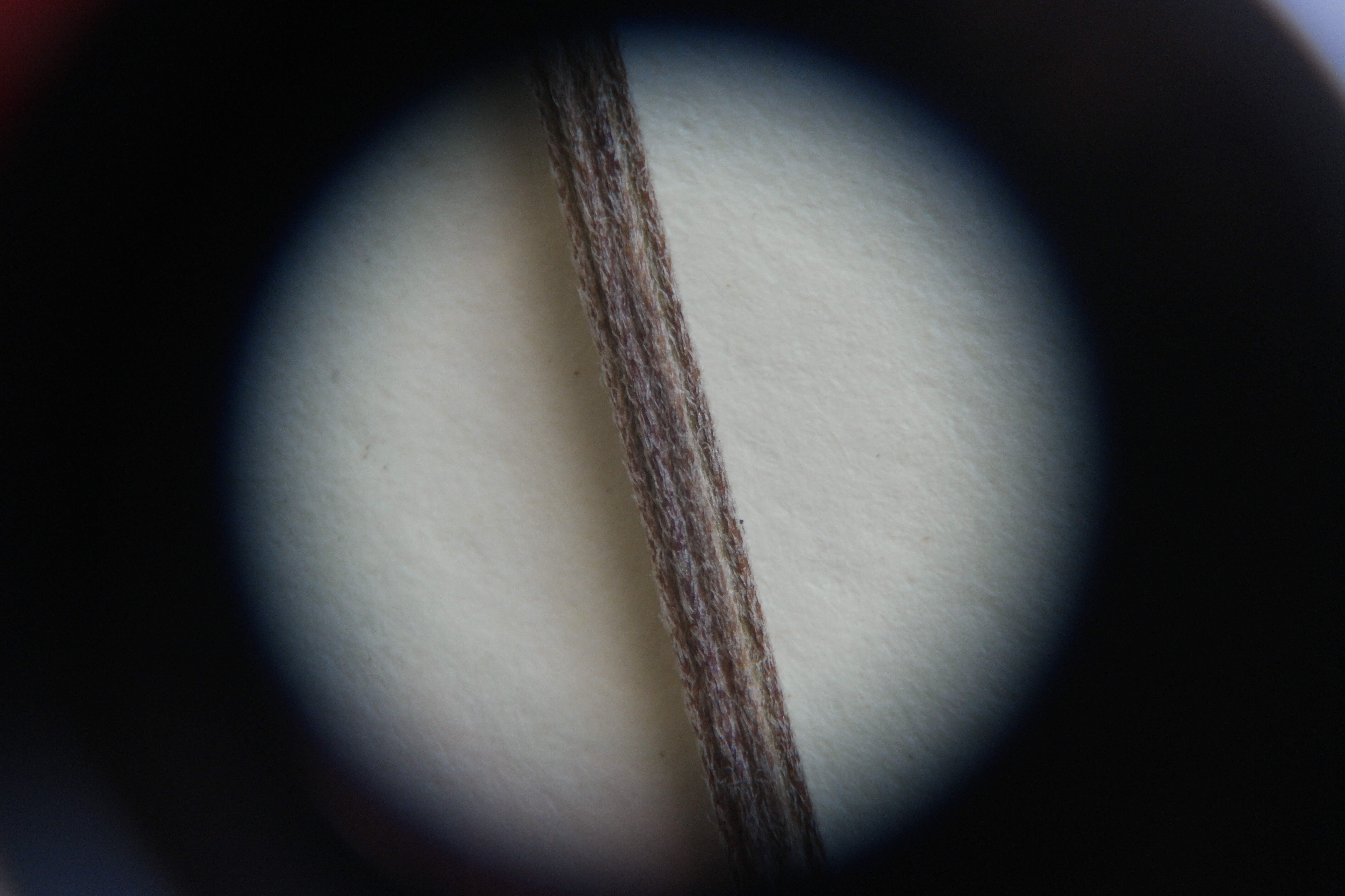 Plantago argentea leg P.Cikovac Borovi do Bijela gora 5-furchiger Schaft